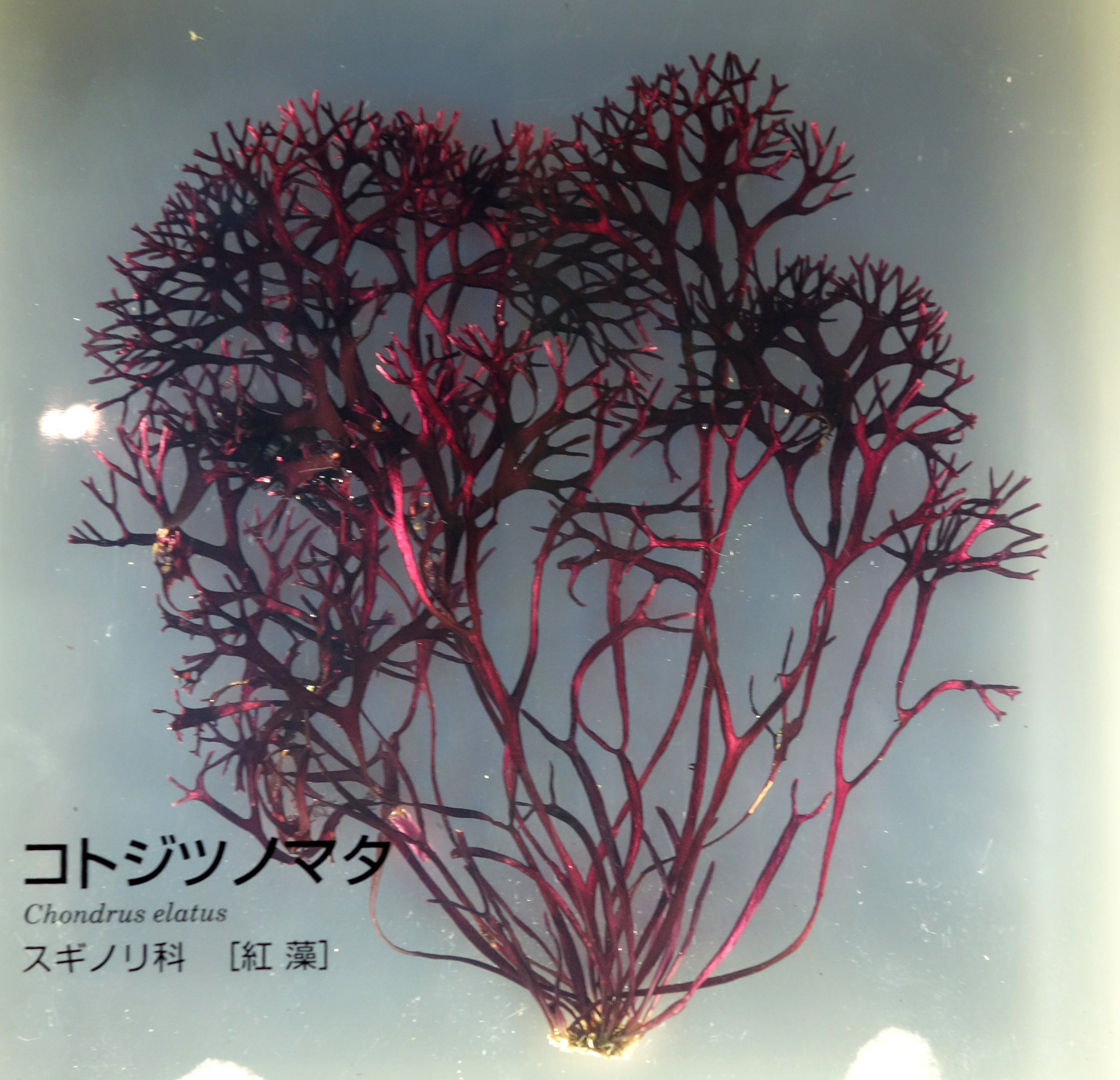 Exhibit in the National Museum of Nature and Science, Tokyo, Japan.